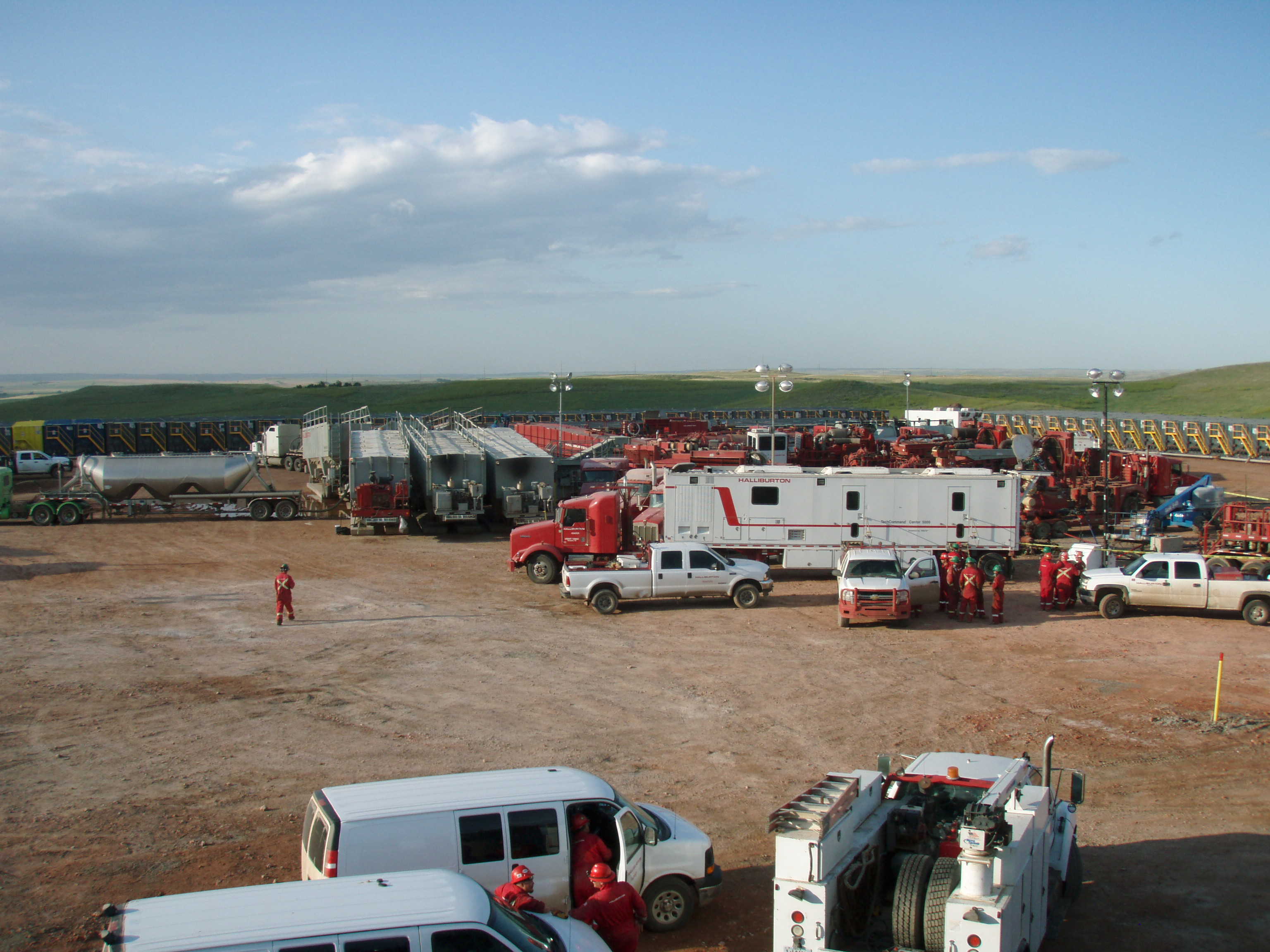 Halliburton preparing to Frack the Bakken